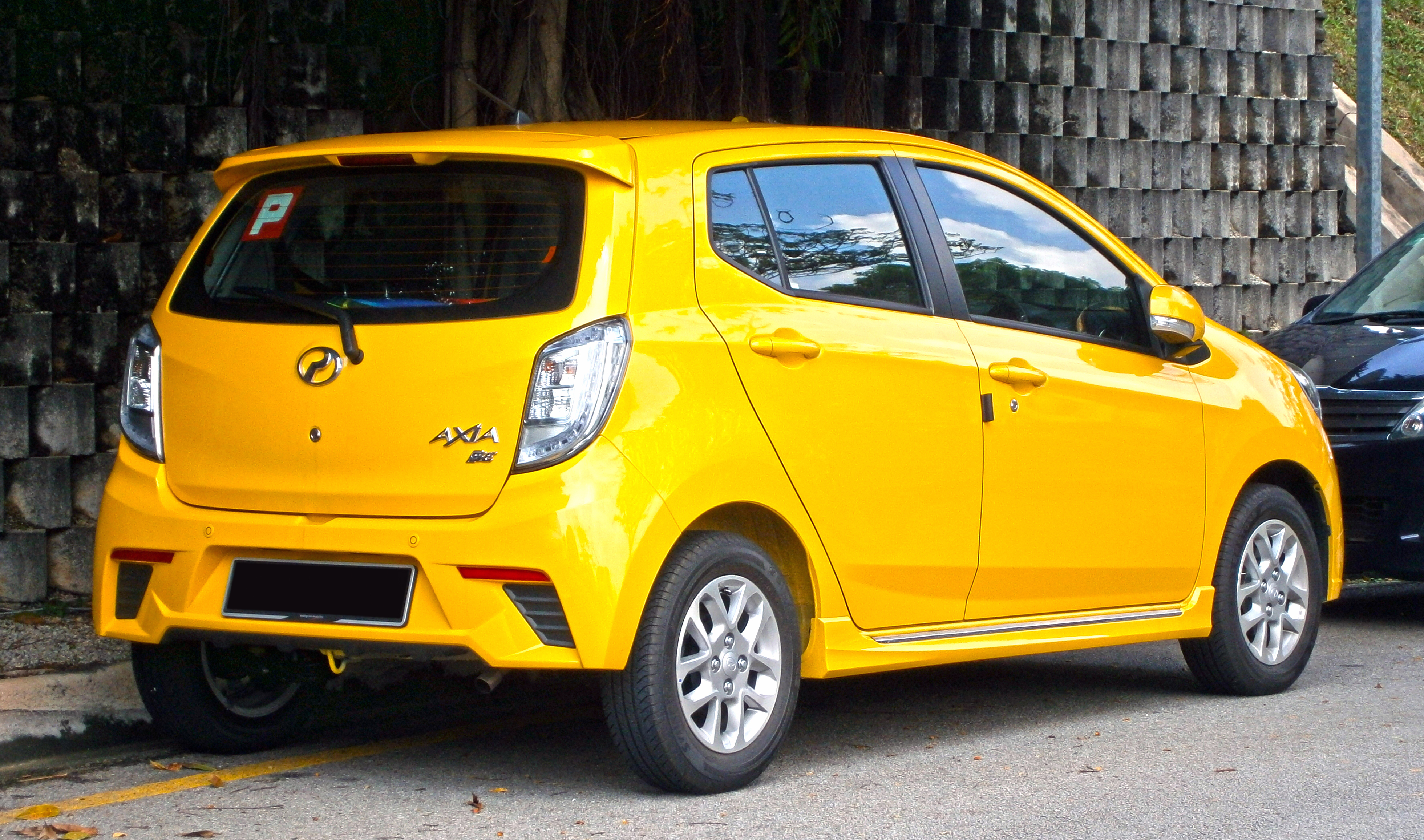 2014 Perodua Axia SE in Cyberjaya, Malaysia.Colour : Sunflower Yellow